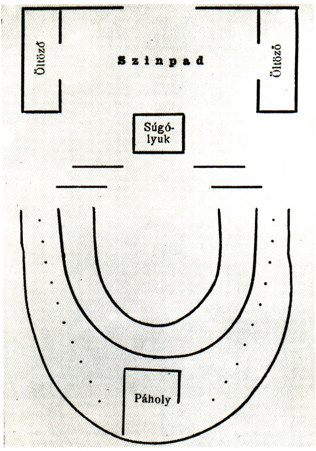 Ground plan of the Zsigmond Justh peasant theather